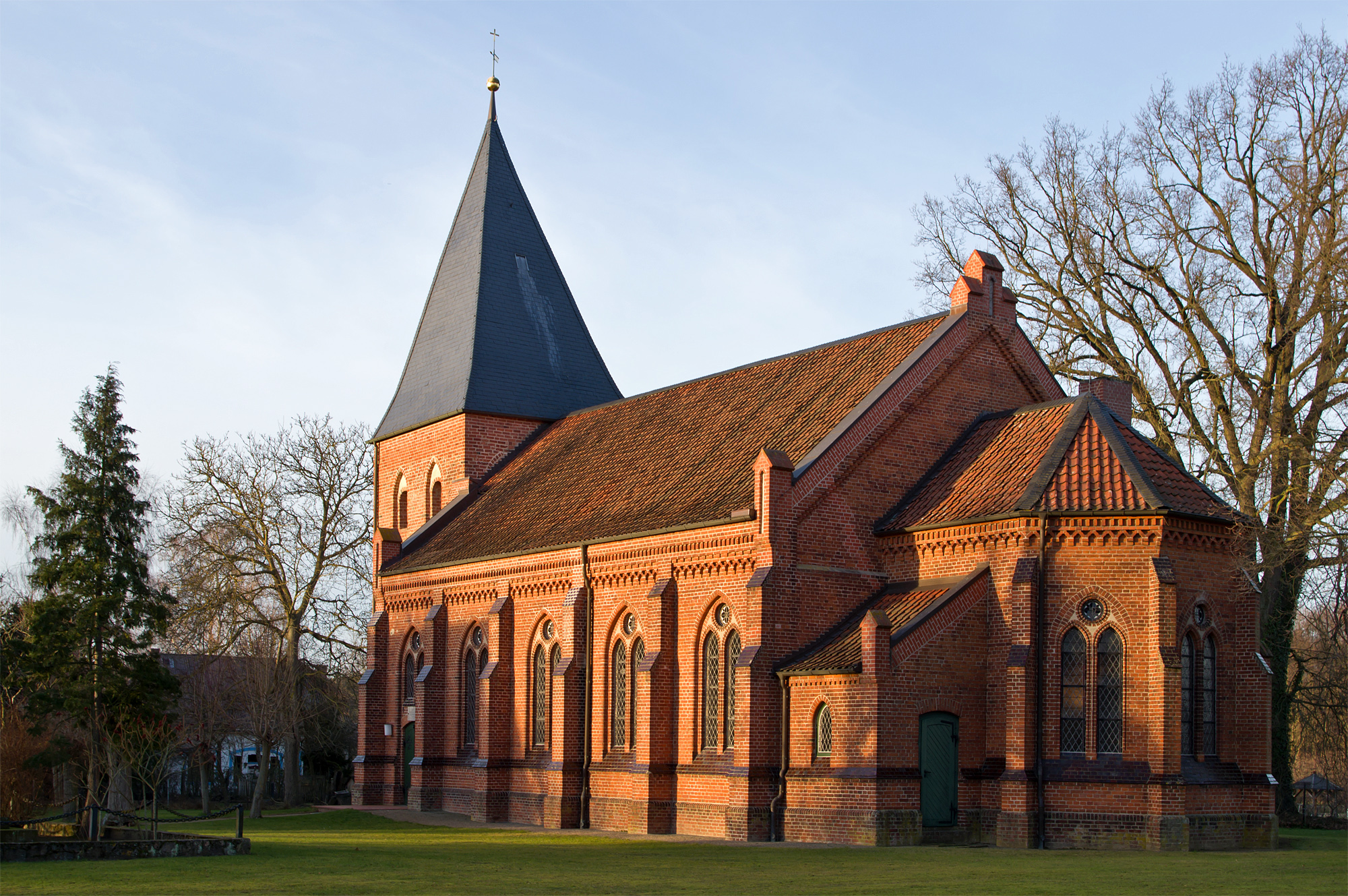 Church of the small village Krummasel (district Lüchow-Dannenberg, northern Germany).